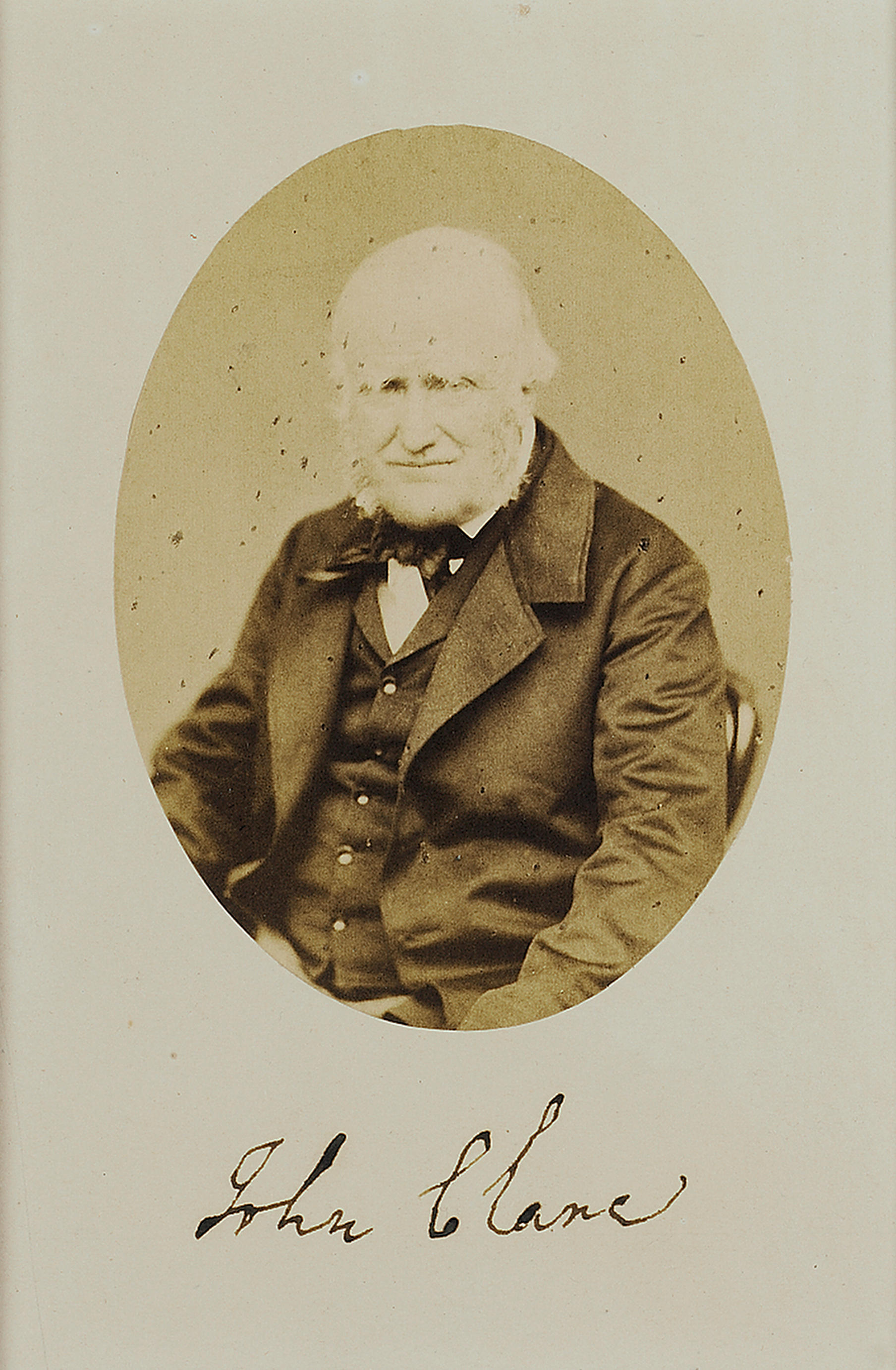 This photograph, the only one of Clare, was taken in 1862, when he was nearly seventy years of age, by W.W. Law of Northampton, the town where Clare lived in the asylum. Photograph, albumen print, half-length, seated, oval.